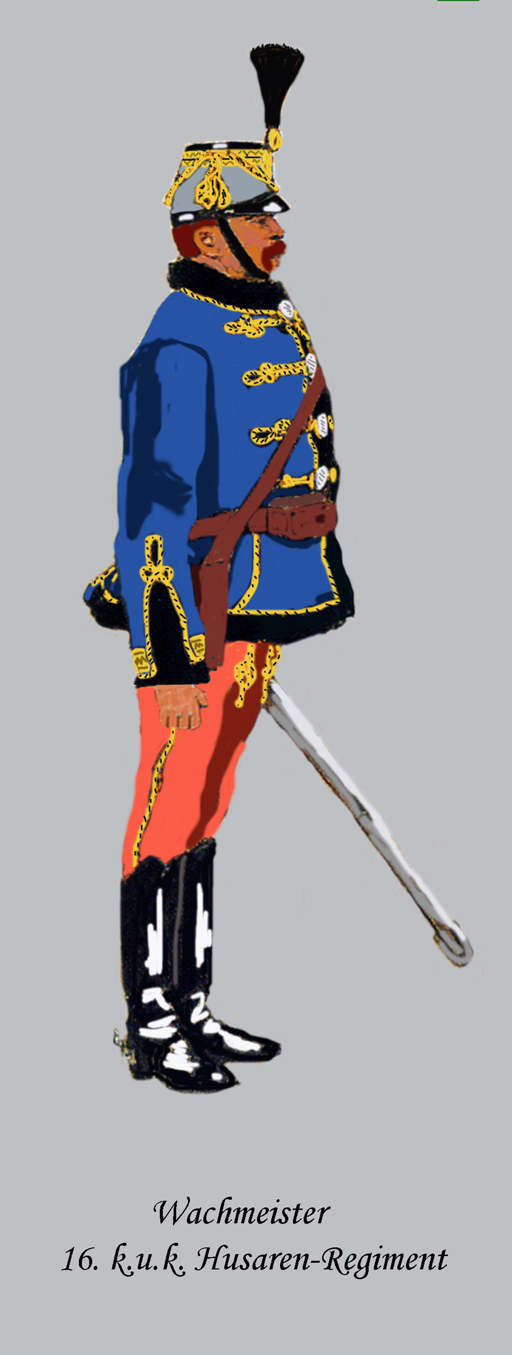 Winter-style Uniform of an Wachtmeister (Master-Sergeant) of the Austro-Hungarian 16th Hussars Regiment – worn until about 1916